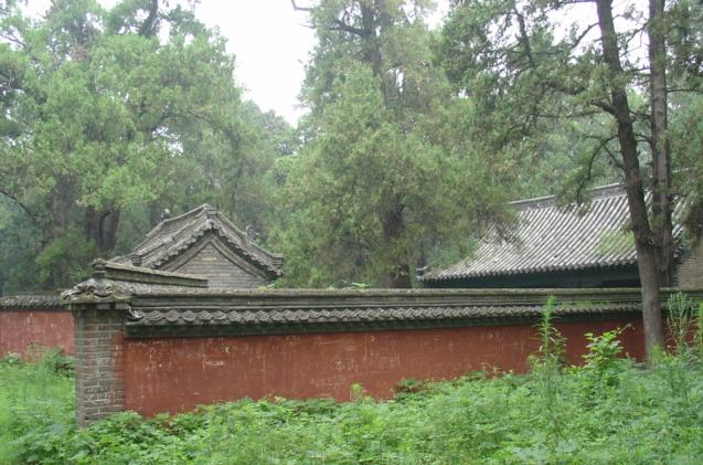 Cemetery of Mencius' Parents, Qufu, Shandong, China